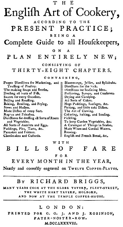 Title page of The English Art of Cookery by Richard Briggs, 1788, published by G.G.J. and J. Robinson